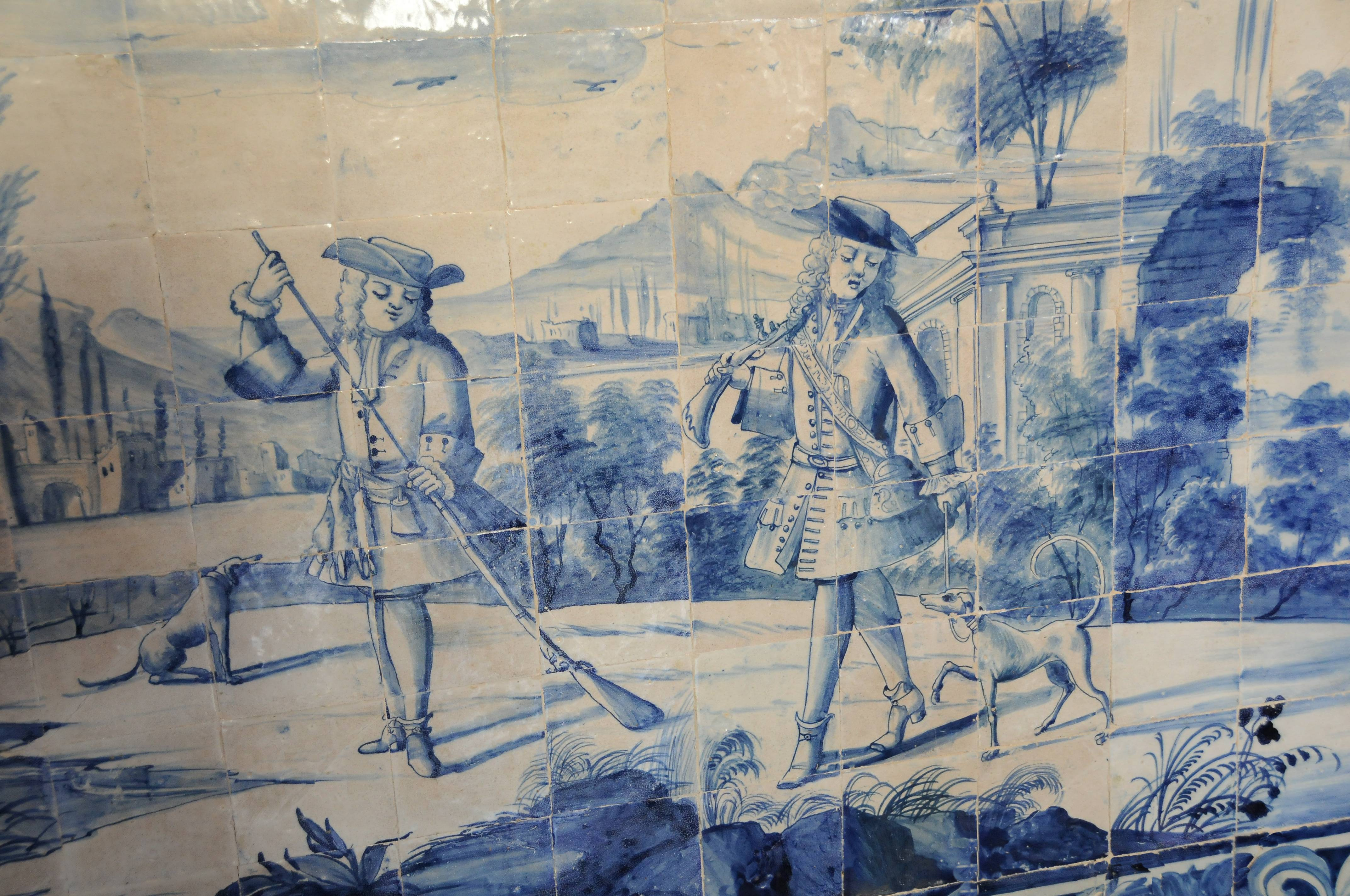 Azulejos in Biscainhos Palace, in Braga, Portugal